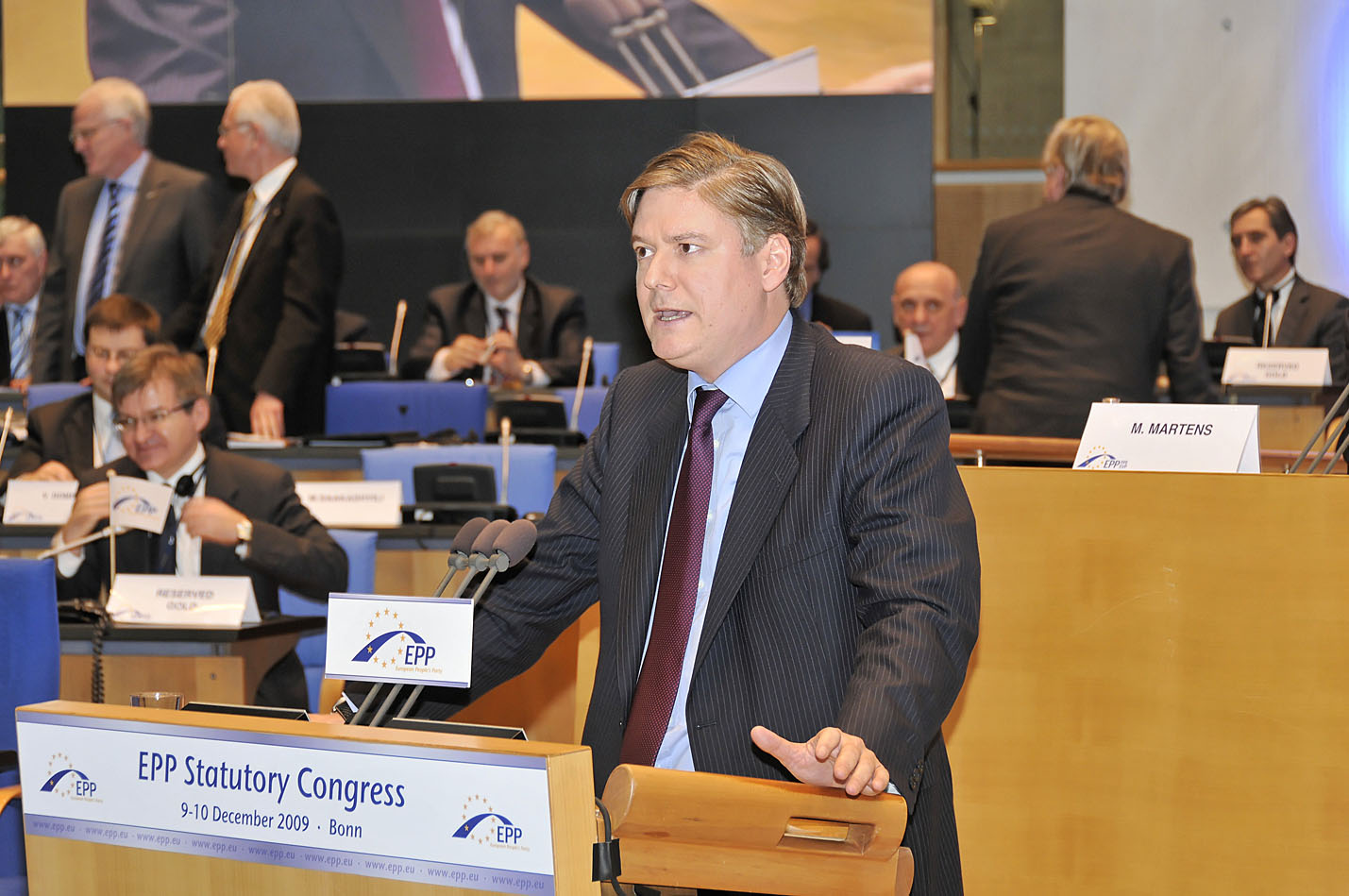 EPP Congress Bonn